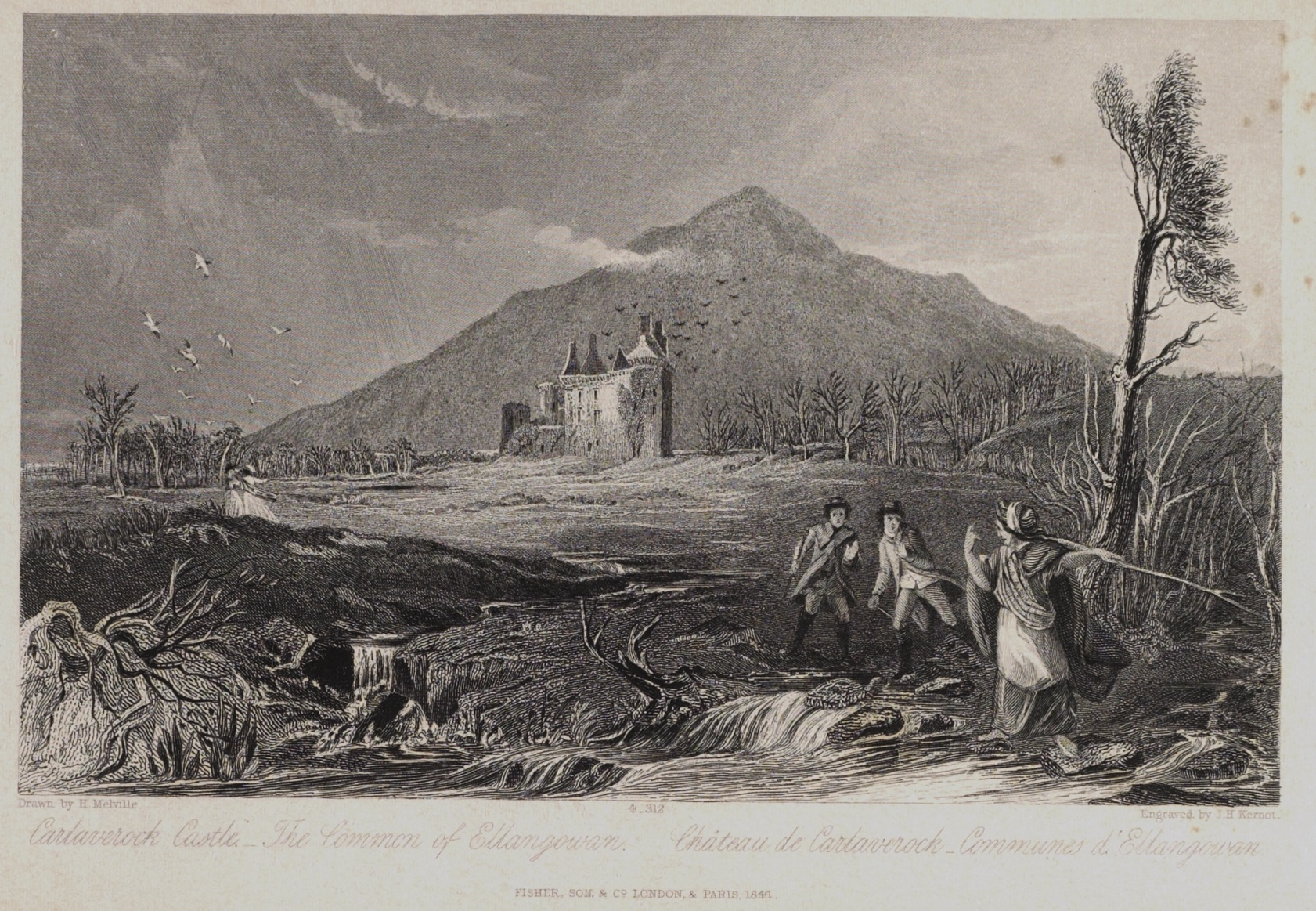 Engraving of Caerlaverock Castle